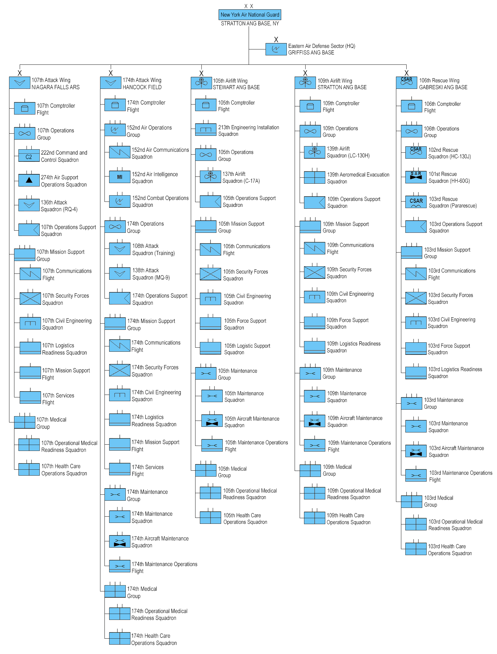 New York Air National Guard